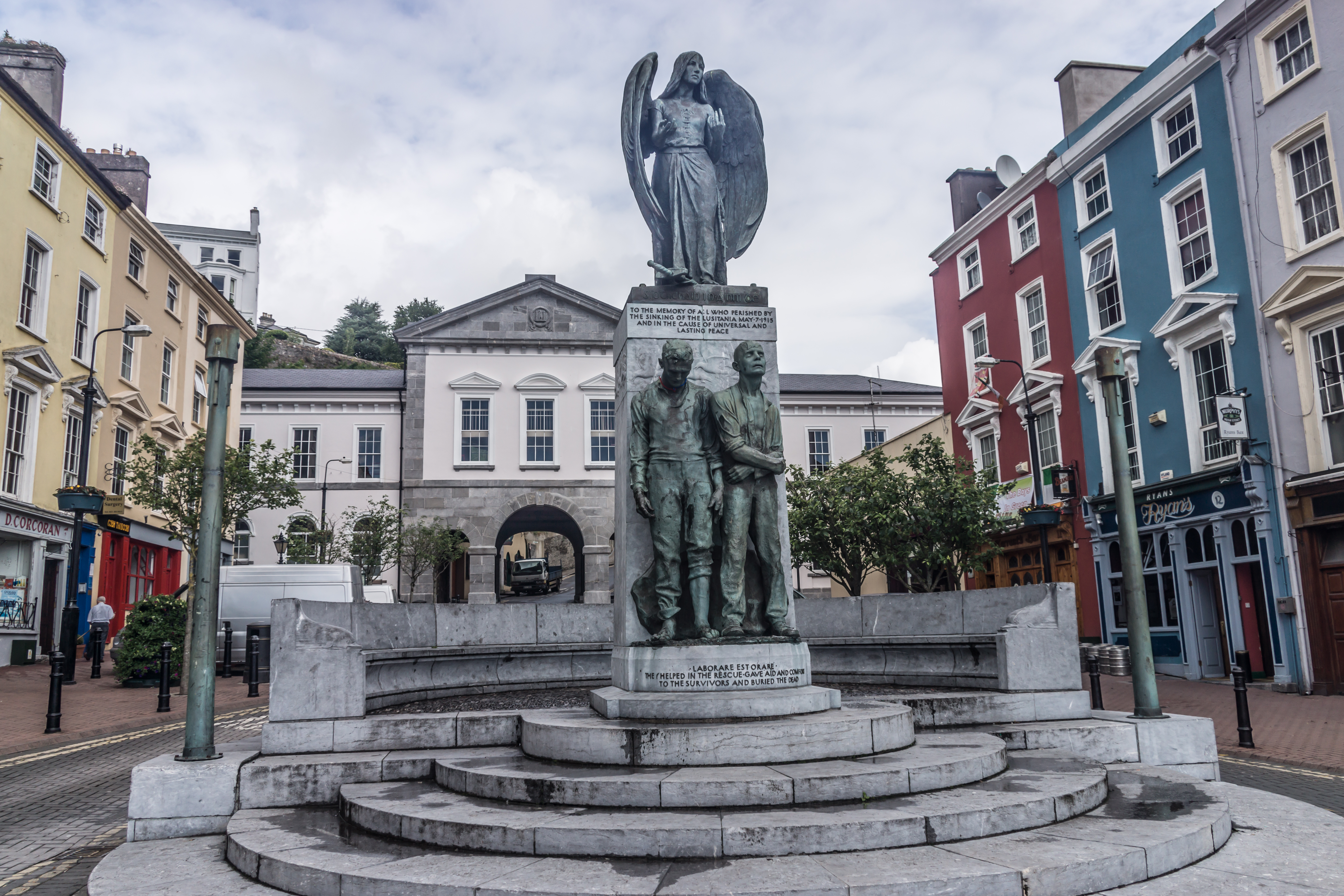 S.S. Lusitania The Cunard Liner, Torpedoed And Sunk By U Boat U20 Off The Cork Coast On 7th May, 1915. With The Loss Of 1198 Lives. Many Survivors And Dead Were Brought Ashore Here. 170 Of The Victims Were Buried In The Nearby Clonmel (Old Church) Cemetery.